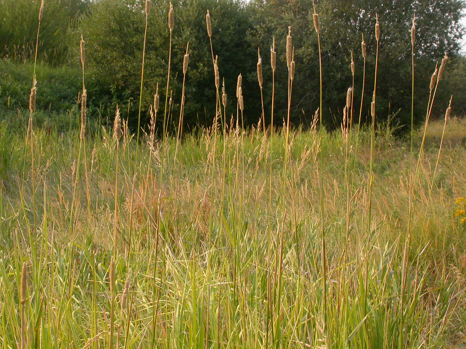 Alopecurus arundinaceus inhabits riparian settings and wet meadows and typically stands taller than timothy grass.